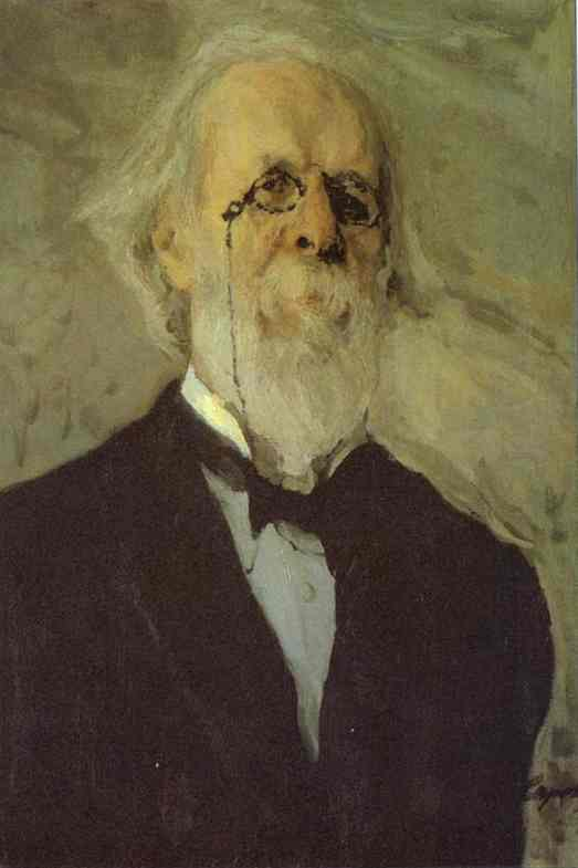 Portrait of Dmitry Stasov. 1908. Oil on canvas. The Russian Museum, St. Petersburg, Russia.